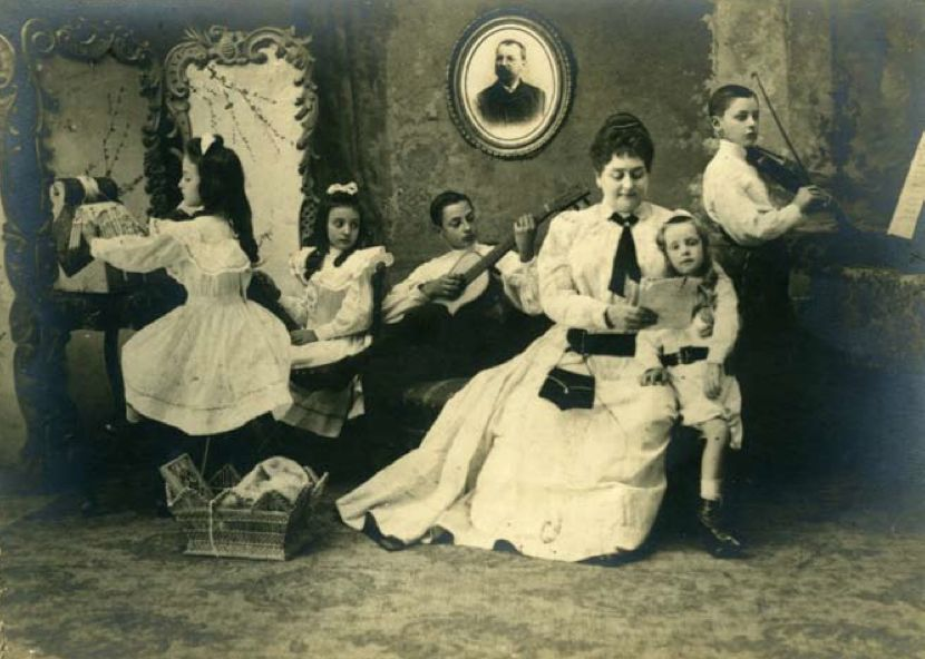 Photograph of Goerlich-Lleó family in which the young Javier Goerlich (b.1886) appears in the center, with guitar.